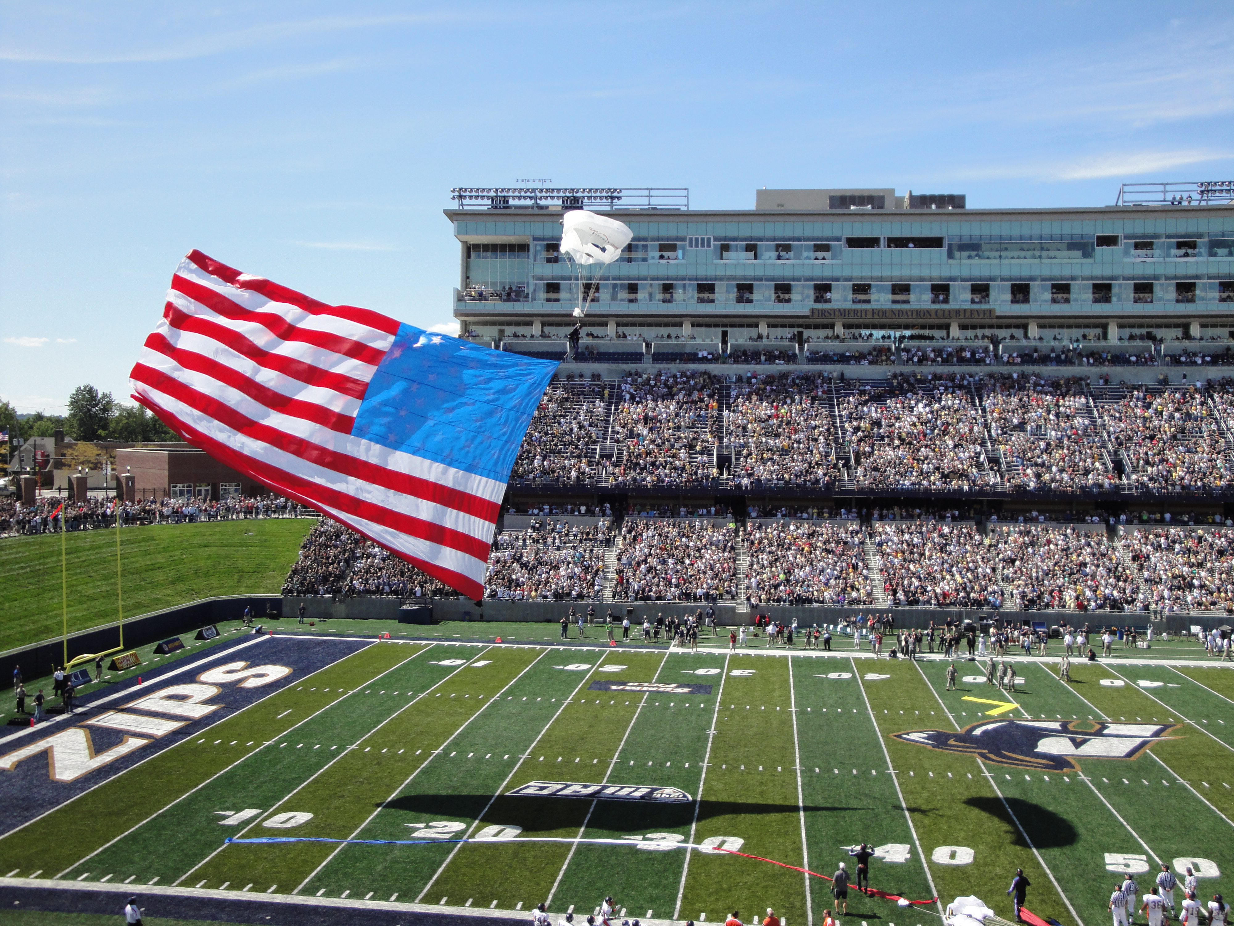 A parachuter descends onto the surface of Summa Field at InfoCision stadium with American flag in tow during the pre-game festivities of the first Zips game held in the stadium.